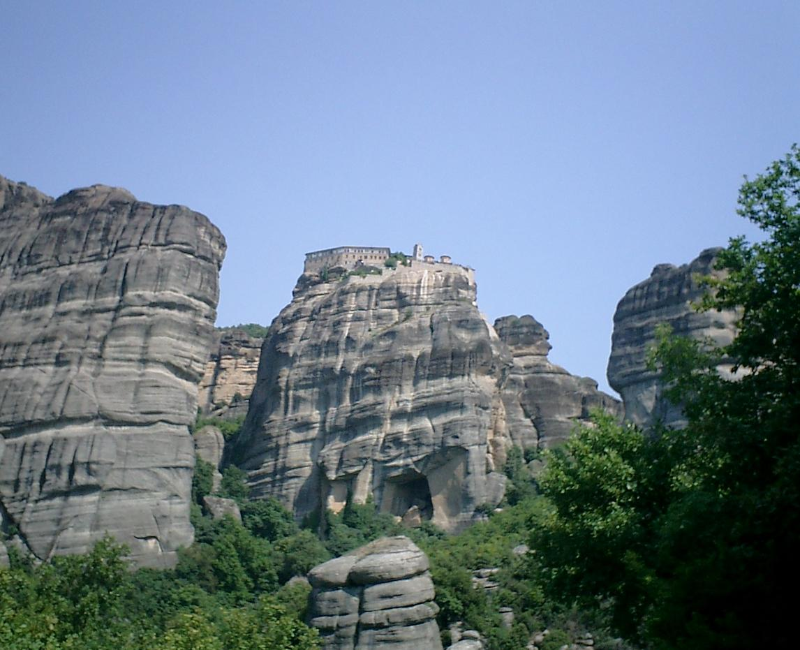 The monastery Metamórphosis / Meteora